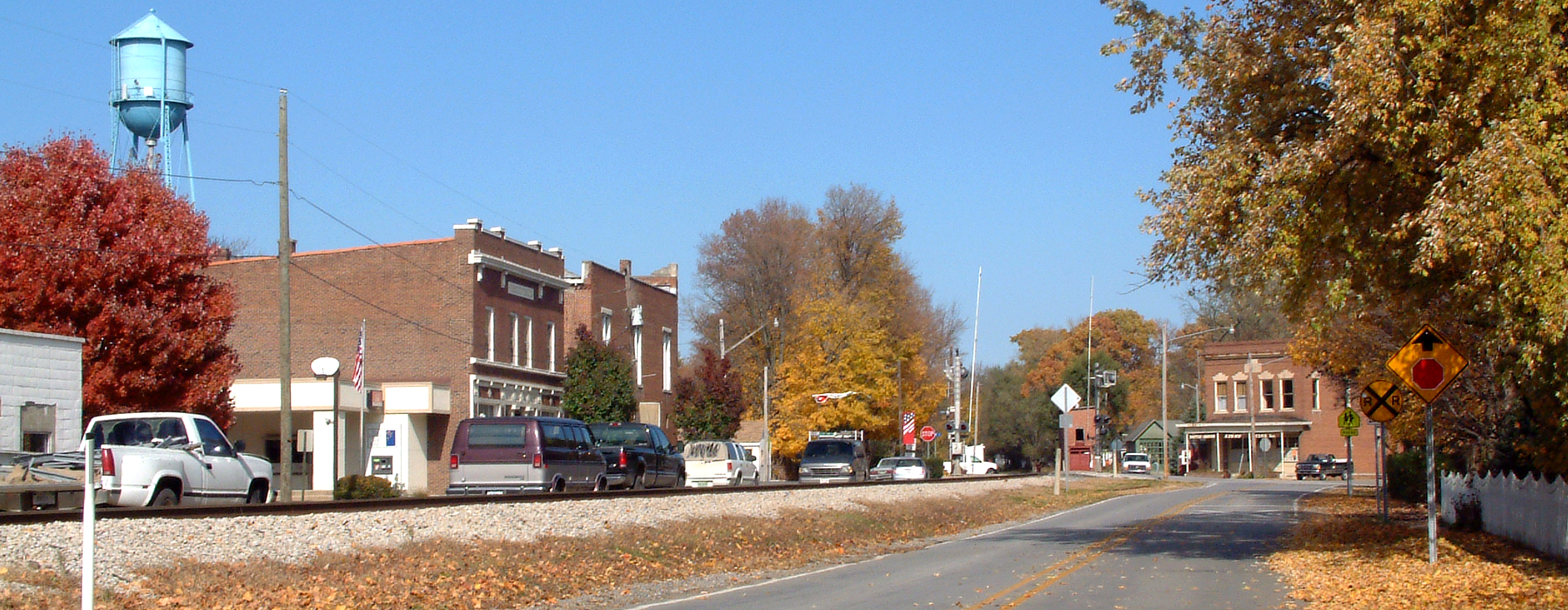 Looking northeast toward the intersection of North Street and Main Street in Battle Ground, Indiana.